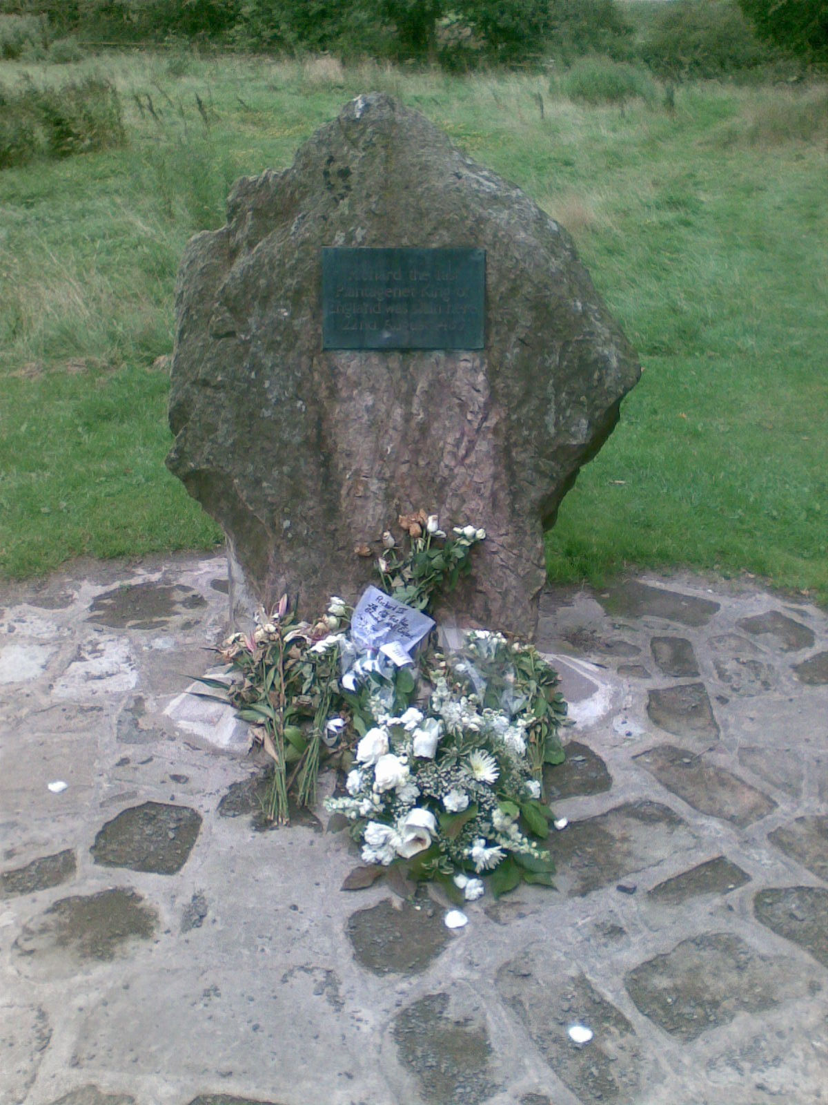 Stone at the supposed point of death of King Richard III at the Battle of Bosworth in 1485. Plaque reads "Richard the last Plantaganet King of England was slain here 22nd August 1485"